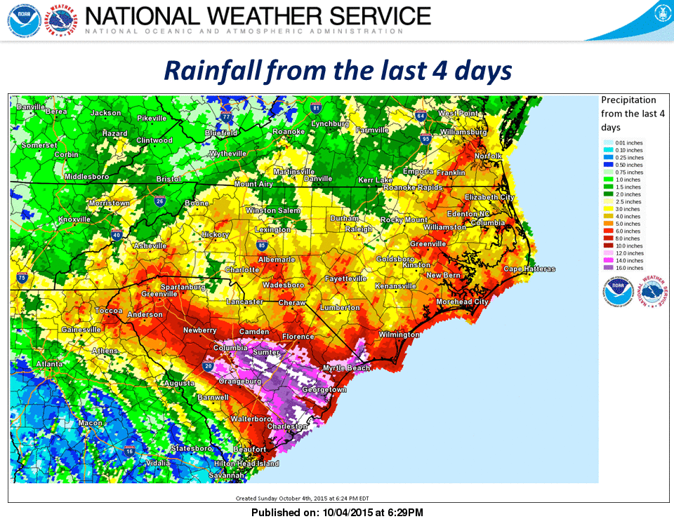 Rainfall accumulations from a non-tropical low across the Carolinas and surrounding states between from October 1–4, 2015. Areas in white indicate accumulations in excess of 20 inches (510 mm)